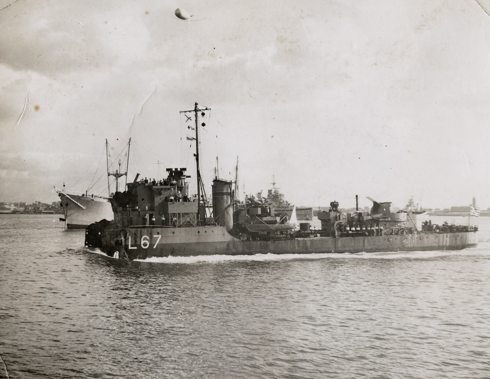 The Greek destroyer, RHNS Adrias (L67), enters Alexandria harbour after striking a mine off the Dodecanese Islands, she travelled nearly one thousand miles to reach harbour, with her bows completely blown off.